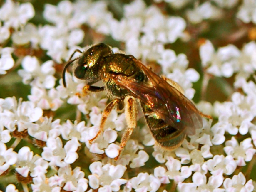 Halictus gemmeus, female. Genova, Italy